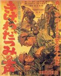 Japanese movie poster for 1950 Japanese film Listen to the Voices of the Sea (日本戦歿学生の手記 きけ、わだつみの声 ,Nippon senbotsu gakusei shuki: Kike wadatsumi no koe)